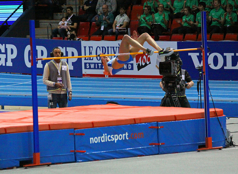 The Italian high jumper Alessia Trost at 2013 European Athletics Indoor Championships